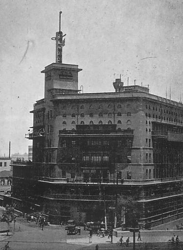 Tokyo Asahi Shimbun Company Building